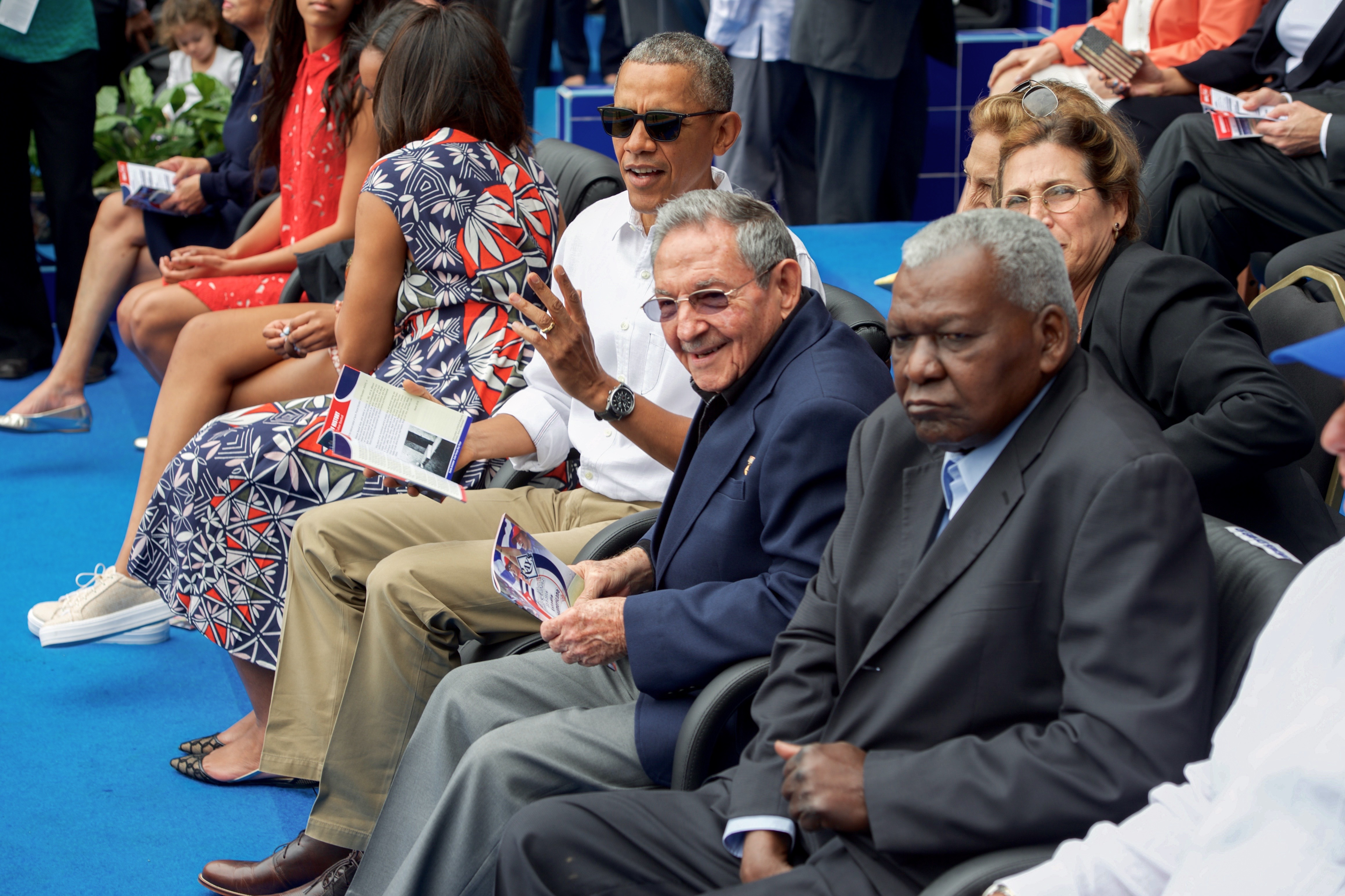 U.S. President Barack Obama sits with Cuban President Raul Castro at the Estadio Latinoamericano in Havana, Cuba, as he members of a U.S. delegation including U.S. Secretary of State John Kerry attend an exhibition game on March 22, 2016, between the Cuban National Baseball Team and the Tampa Bay Rays. [State Department photo/ Public Domain]